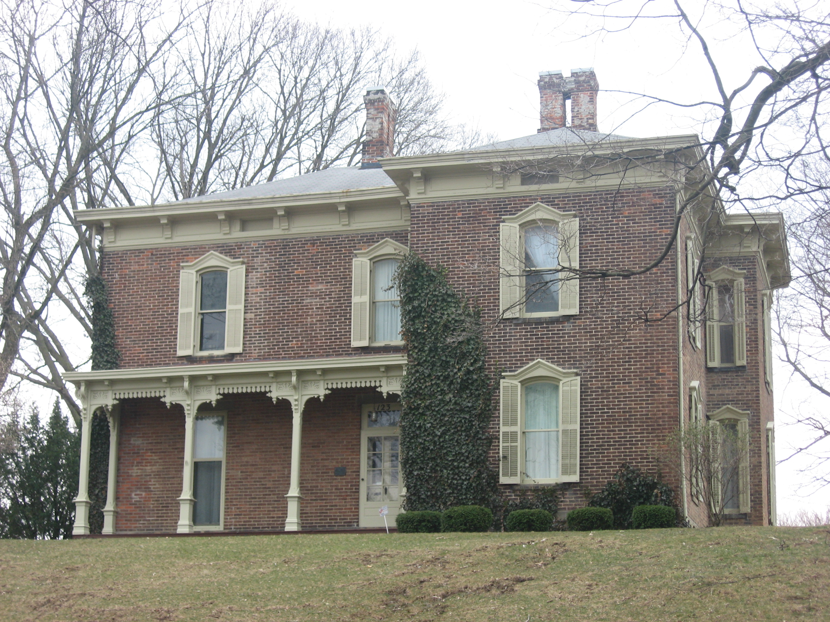 Front of the Jacob Light House, located at 123 W. Circle Avenue in Washington Court House, Ohio, United States. Built in 1875, it is listed on the National Register of Historic Places.